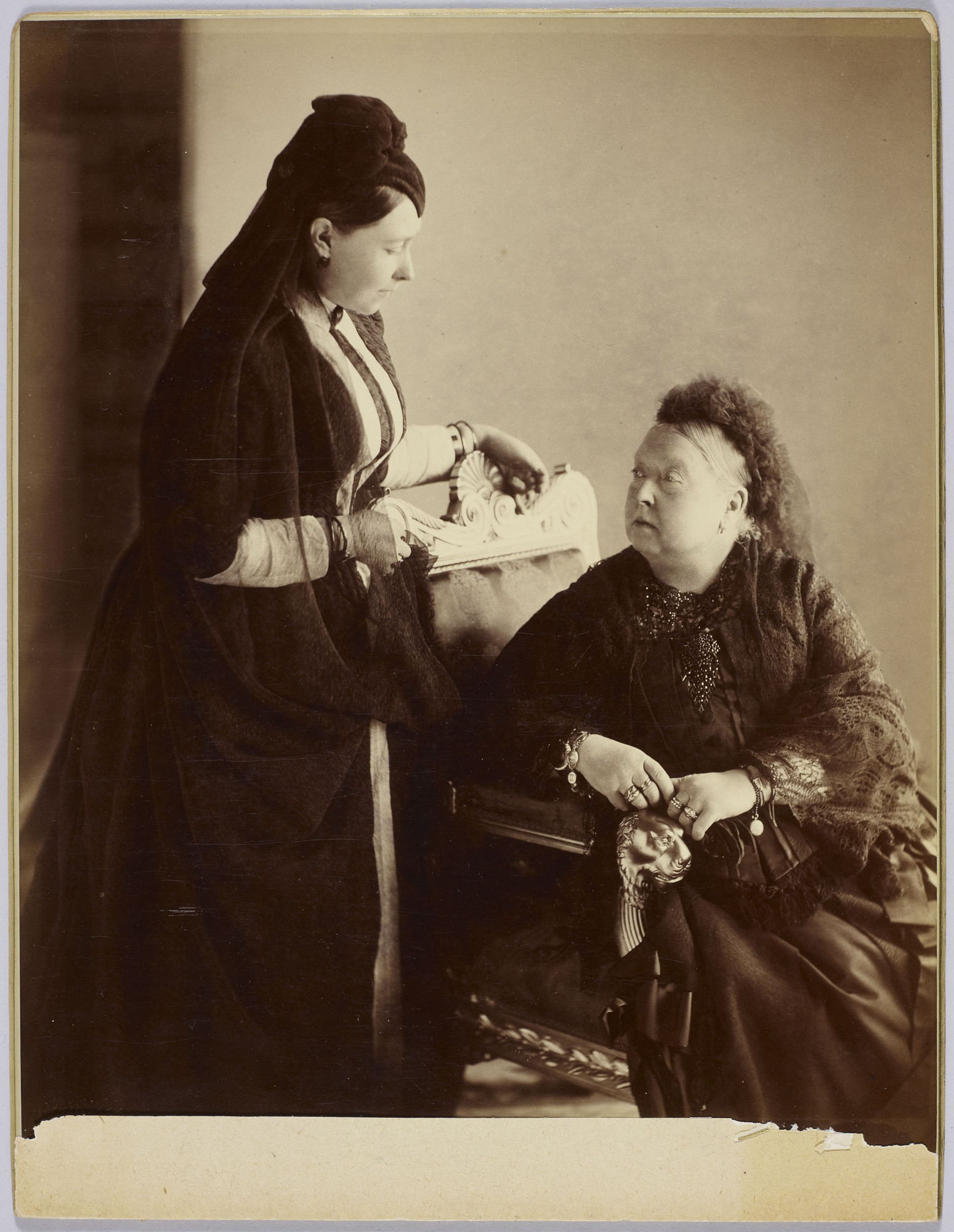 Empress Frederick of Germany with her mother Queen Victoria